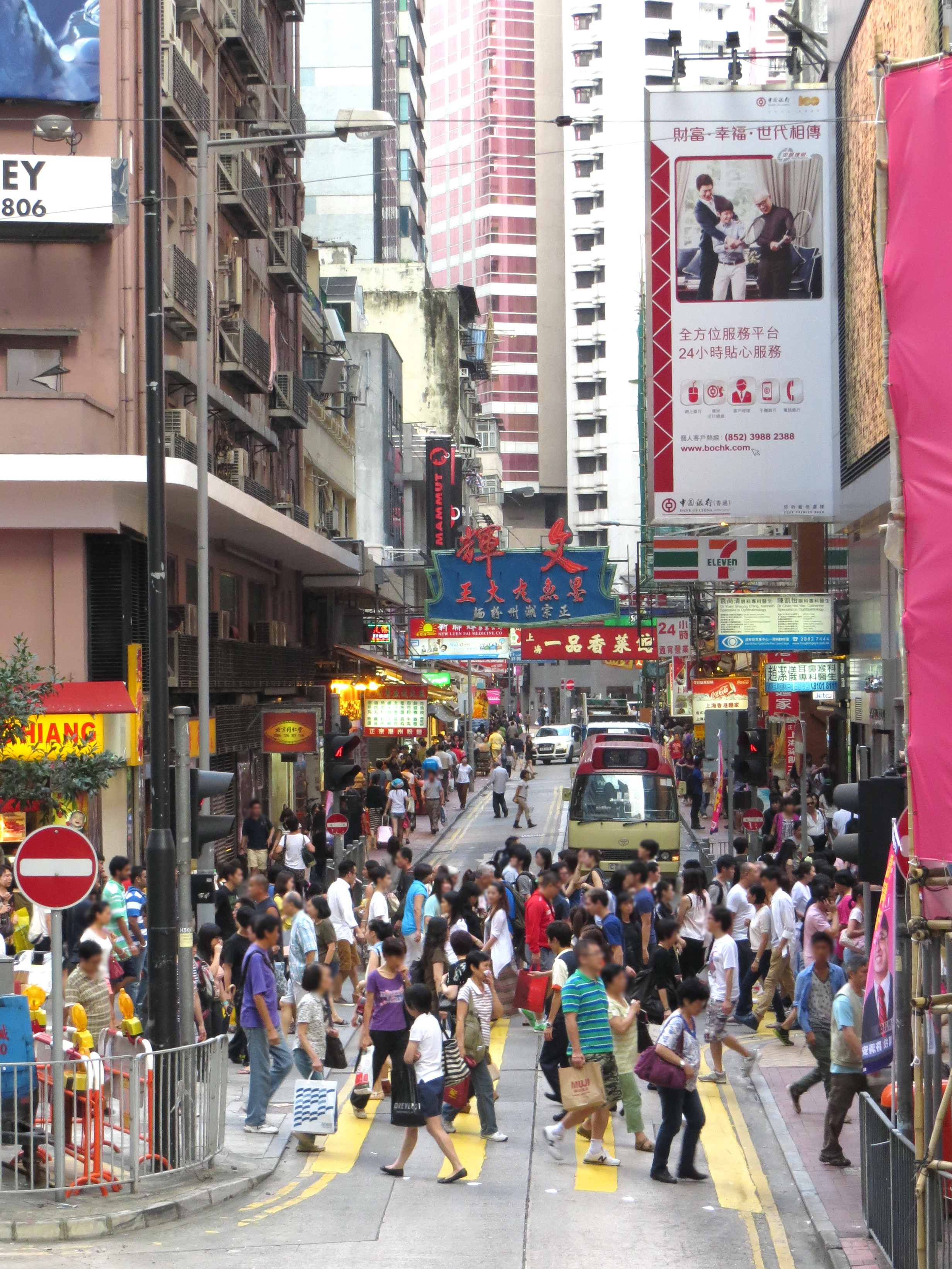 North end of the Jardine's Bazaar, Causeway Bay, Hong Kong.